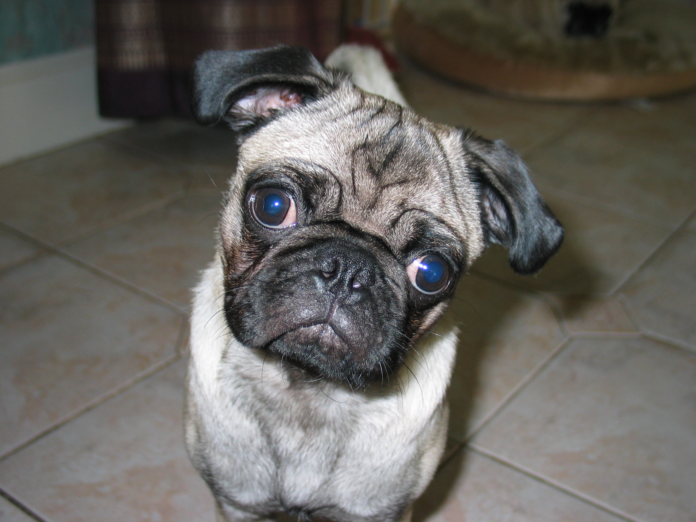 A pug named "Wilbur".